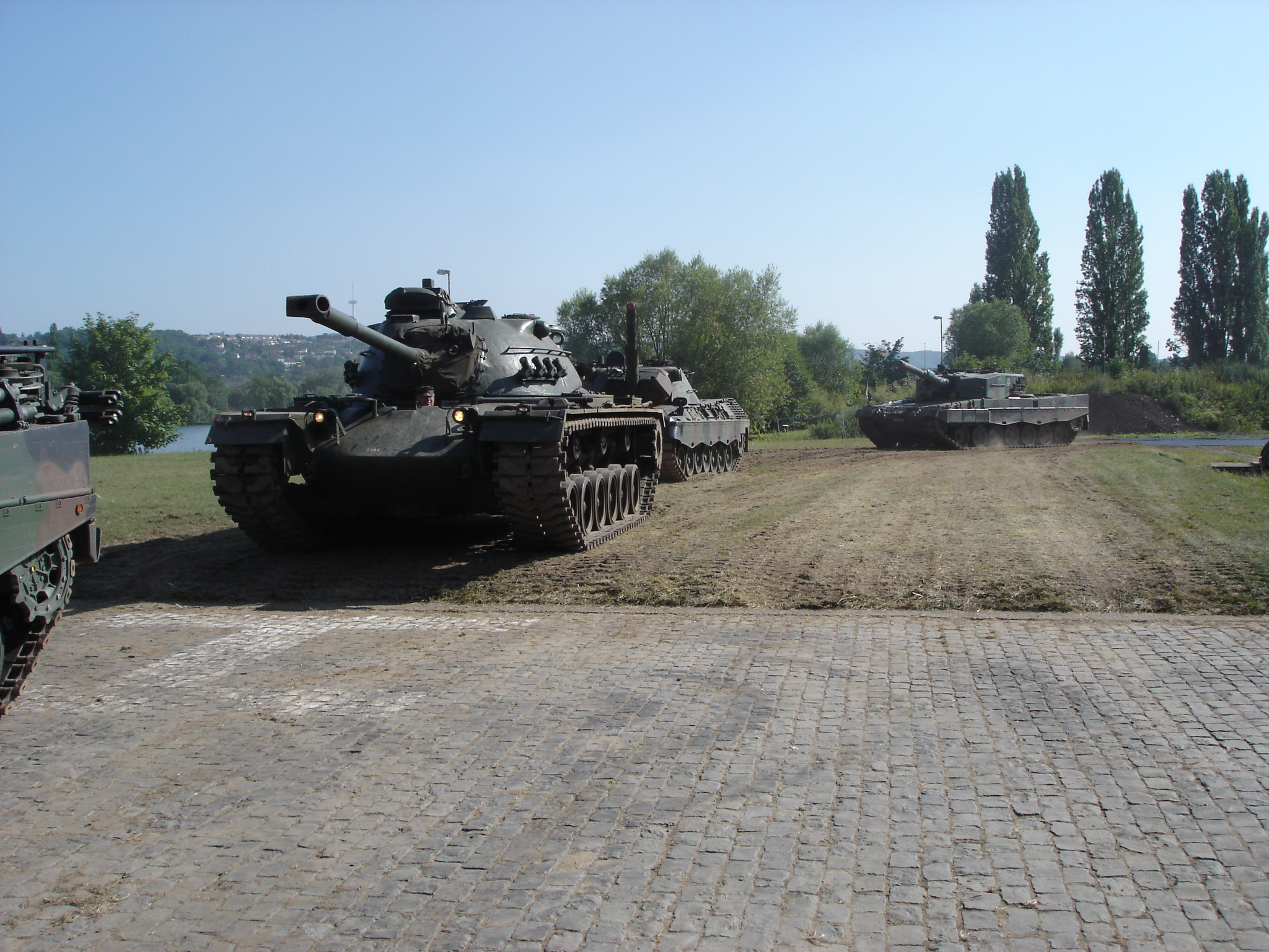 German Tanks. Front left: M48, behind: Leopard 1 A2, background: Leopard 2 A4